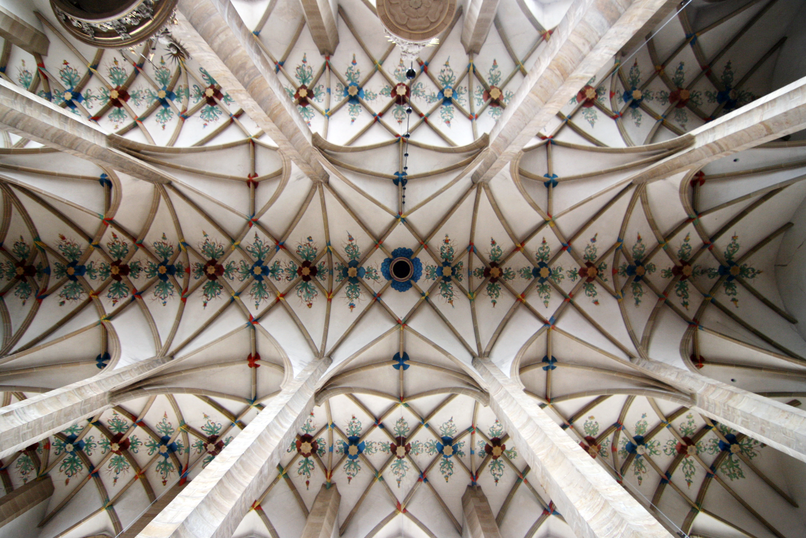 Gothic vaults of the "Freiberger Dom"